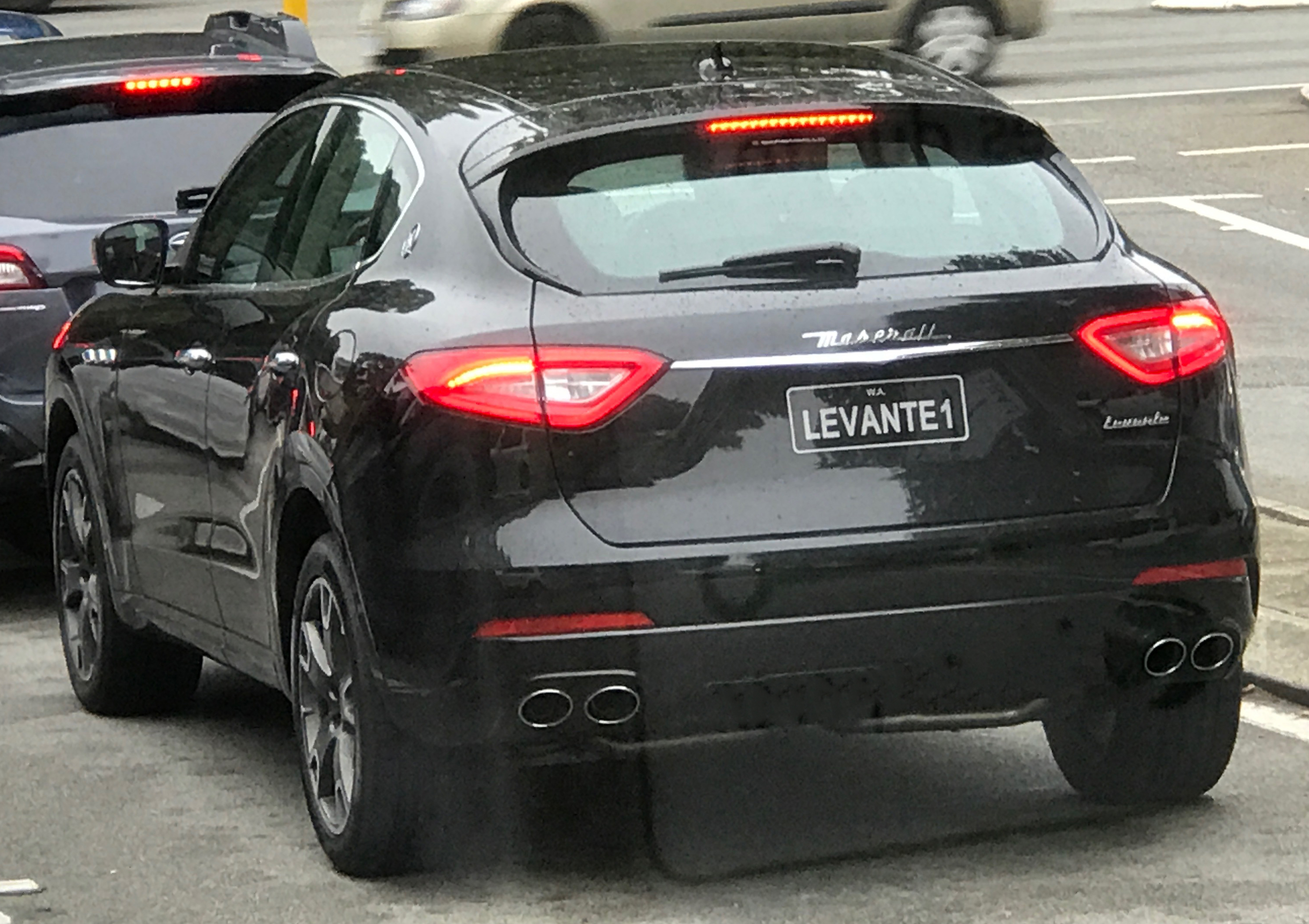 2016 Maserati Levante (M157) Luxury wagon. Photographed in Claremont, Western Australia, Australia.